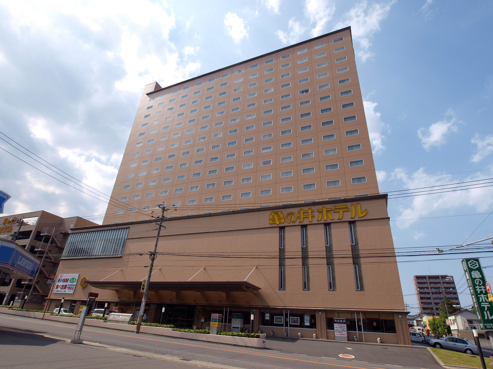 Beppu Kamenoi Hotel, Beppu City, Oita Prefecture